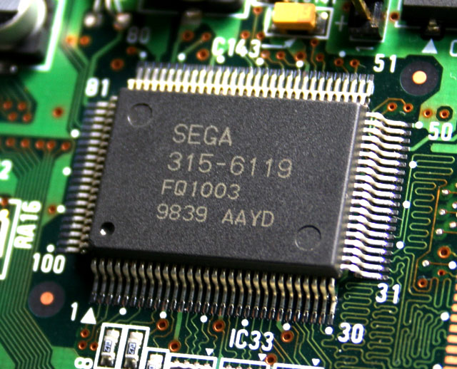 Sound processor for SEGA NAOMI.